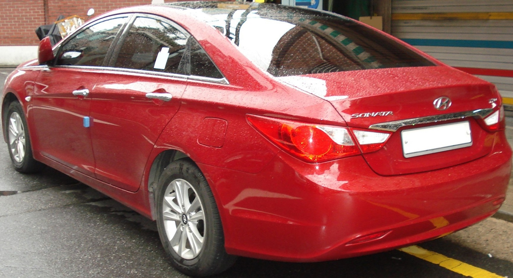 Hyundai Sonata